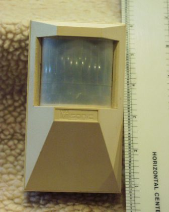 Front view of typical residential/commercial passive infrared motion detector